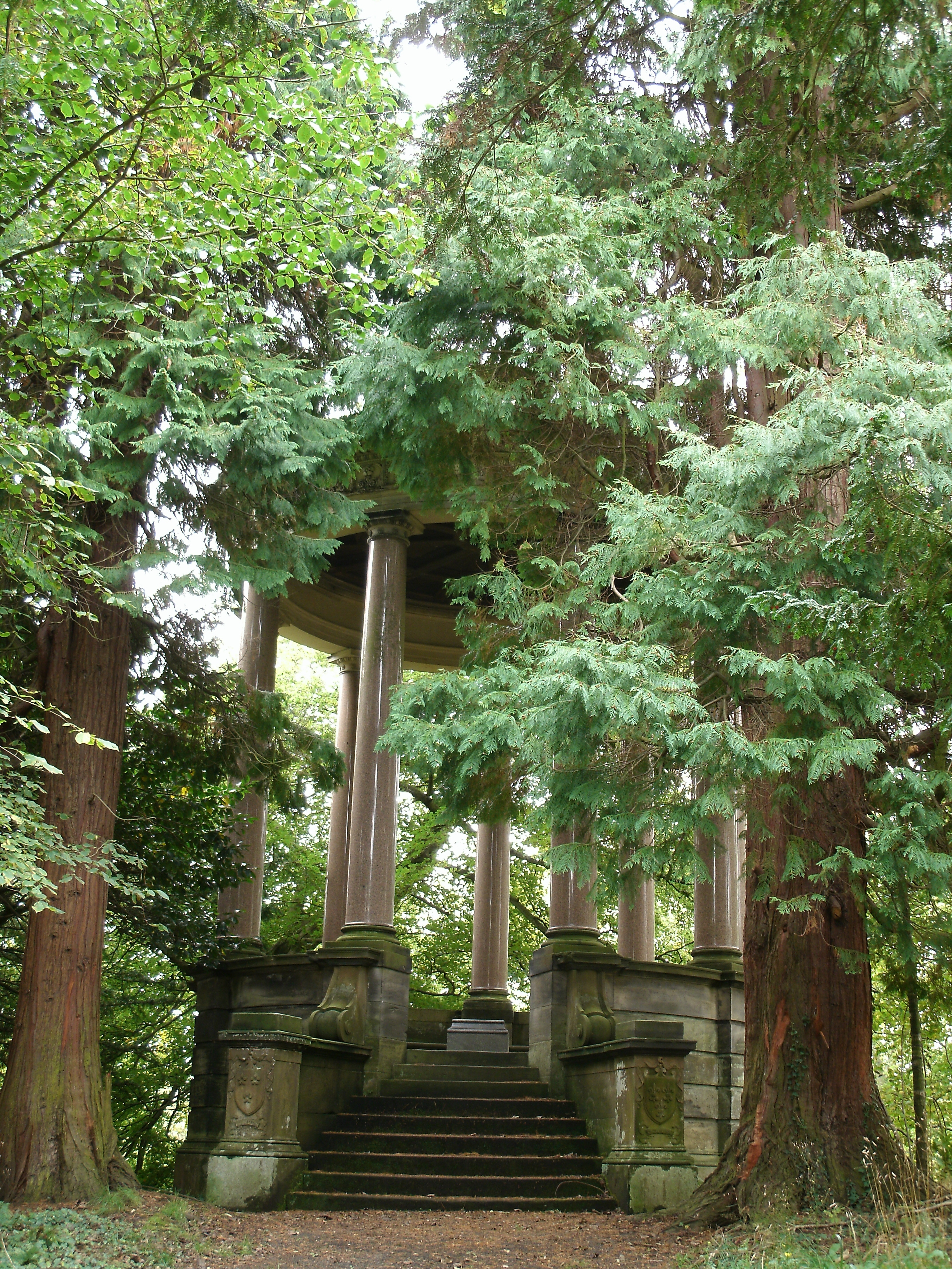 Monument to the 11th Duke of Hamilton in the form of an open circular temple, 21 feet in diameter, raised upon a rusticated basement. There are nine columns which support the entablature and roof, each 15 feet high, in single blocks of polished red Aberdeen granite; the other portions being of fine sandstone. A colossal bronze bust of the Duke, some 41 inches high, and 19 inches square at the base, was placed upon a granite pedestal within the monument, although now removed to the Low Parks Museum in Hamilton.